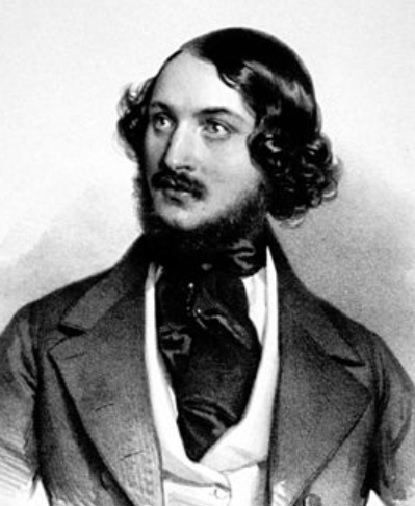 Filippo Coletti-litho-detail